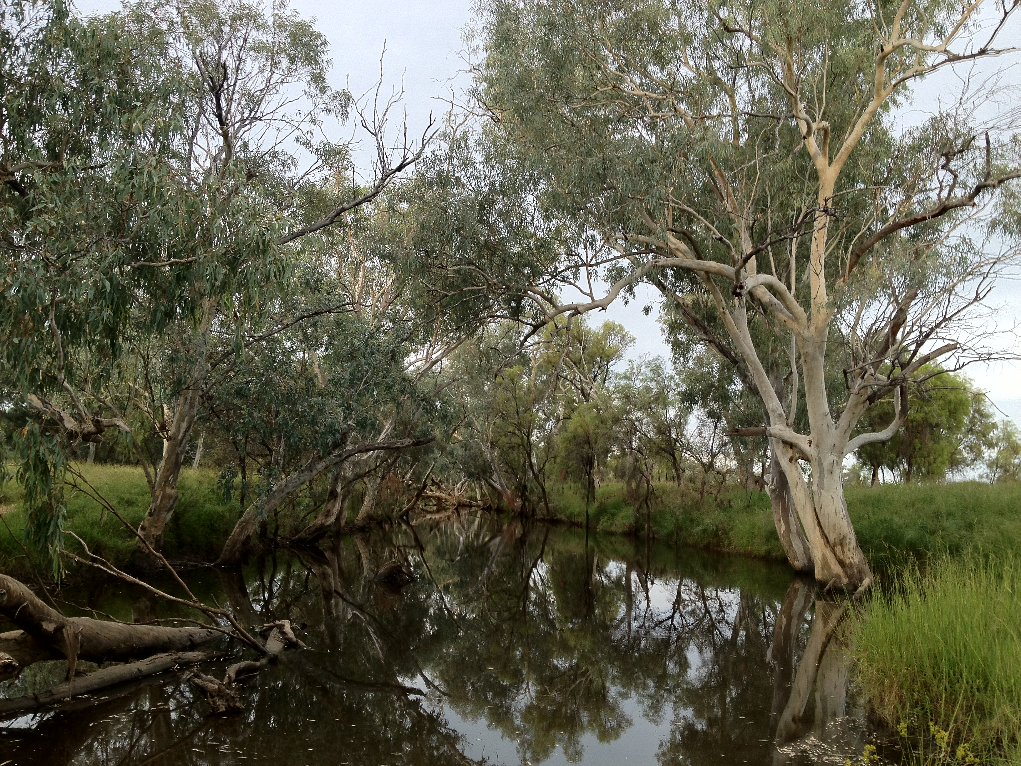 A section of the Barcoo river near to Tambo, Queensland. There had been recent severe flooding. On the riverbanks grow Eucalyptus camaldulensis.